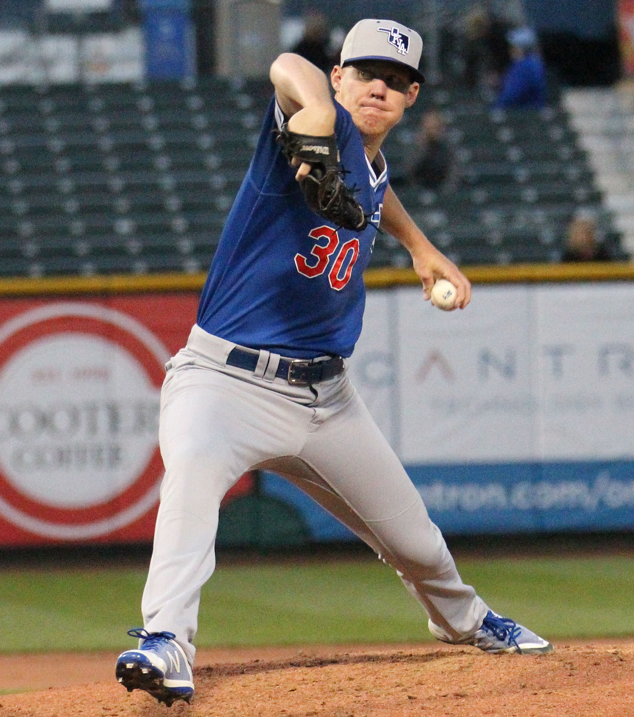 Rob Zastryzny delivers a pitch for the Oklahoma City Dodgers during a 2019 game at Werner Park in Nebraska